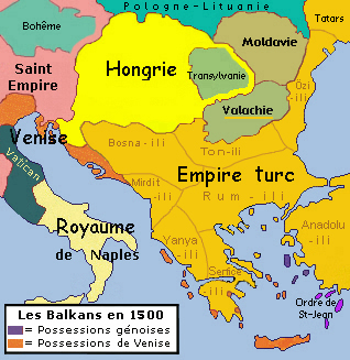 Historic map of Balkan peninsula, 1500